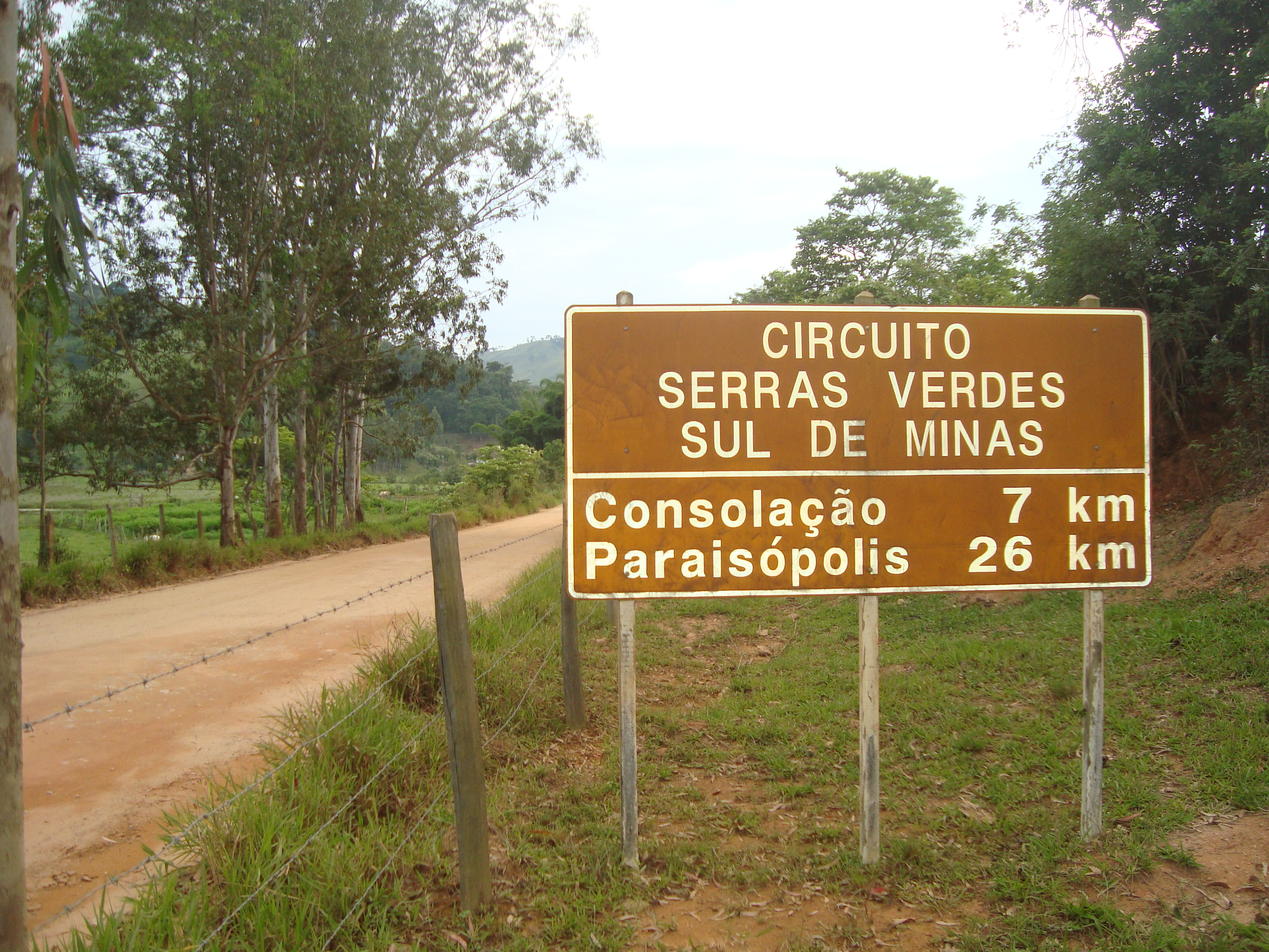 Unpaved road between Cambuí and Consolação in Minas Gerais, Brazil